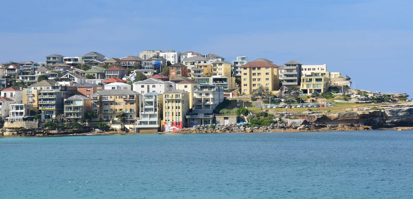 North Bondi clifftop homes.